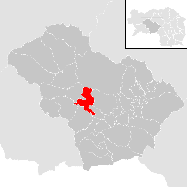 district Murtal in Styria, Austria